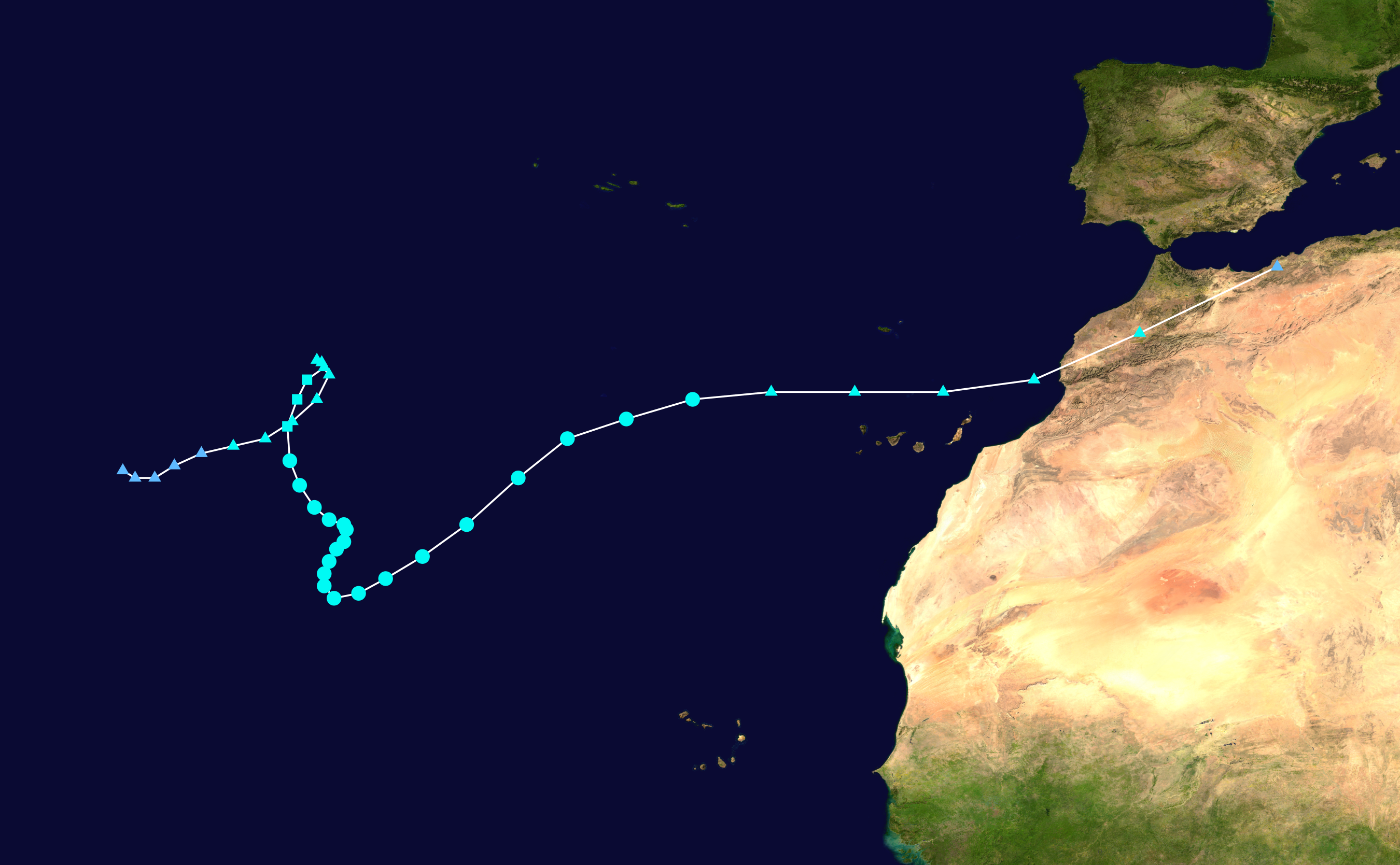 Track map of Tropical Storm Delta of the 2005 Atlantic hurricane season. The points show the location of the storm at 6-hour intervals. The colour represents the storm's maximum sustained wind speeds as classified in the Saffir–Simpson scale (see below), and the shape of the data points represent the nature of the storm, according to the legend below. Saffir–Simpson scale Tropical depression≤38 mph≤62 km/h Category 3111–129 mph178–208 km/h Tropical storm39–73 mph63–118 km/h Category 4130–156 mph209–251 km/h Category 174–95 mph119–153 km/h Category 5≥157 mph≥252 km/h Category 296–110 mph154–177 km/h Unknown Storm type Tropical cyclone Subtropical cyclone Extratropical cyclone / Remnant low / Tropical disturbance / Monsoon depression